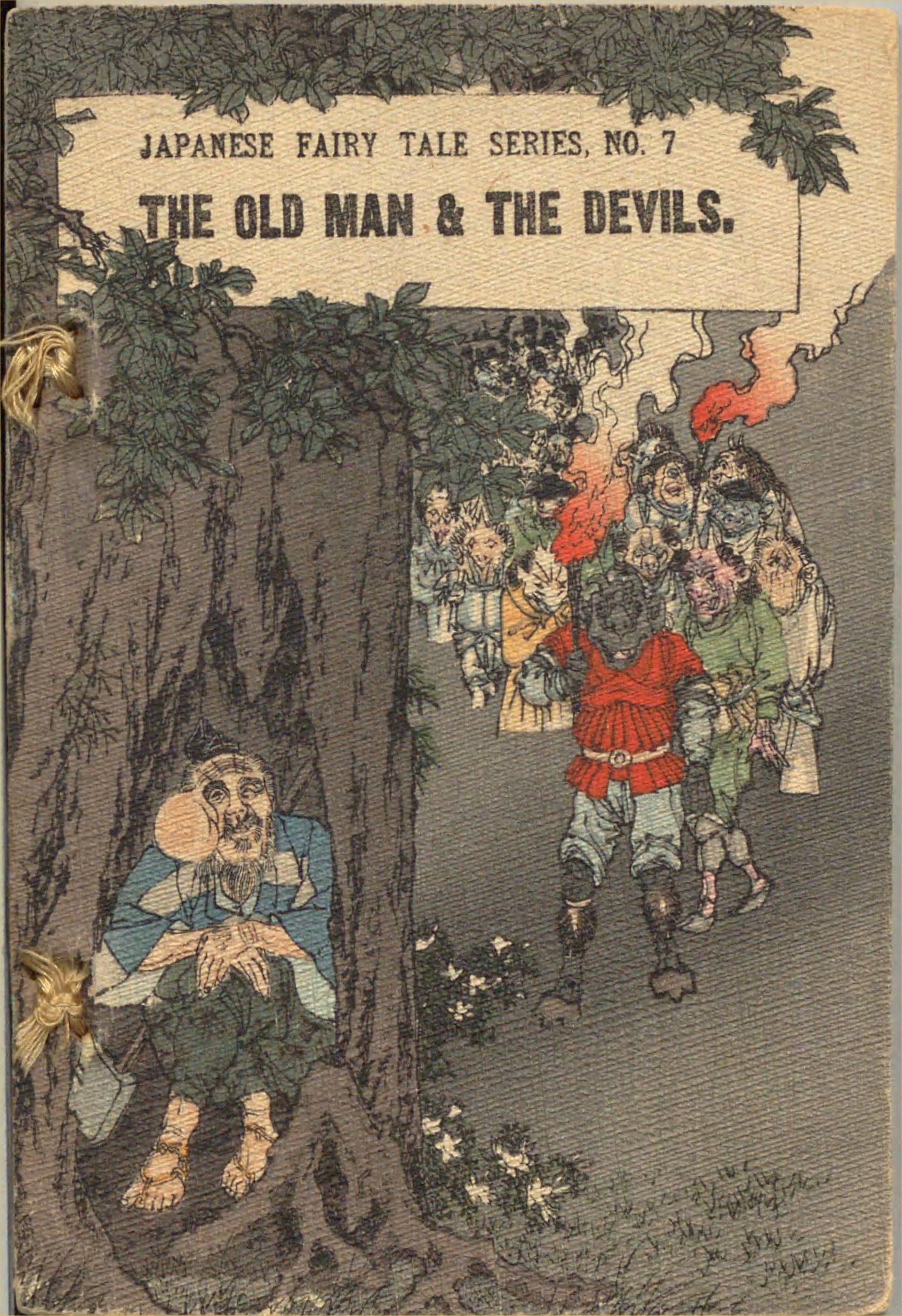 Kobutori (old man with a lump) hiding in a tree's hollow as the oni (devils) come marching.